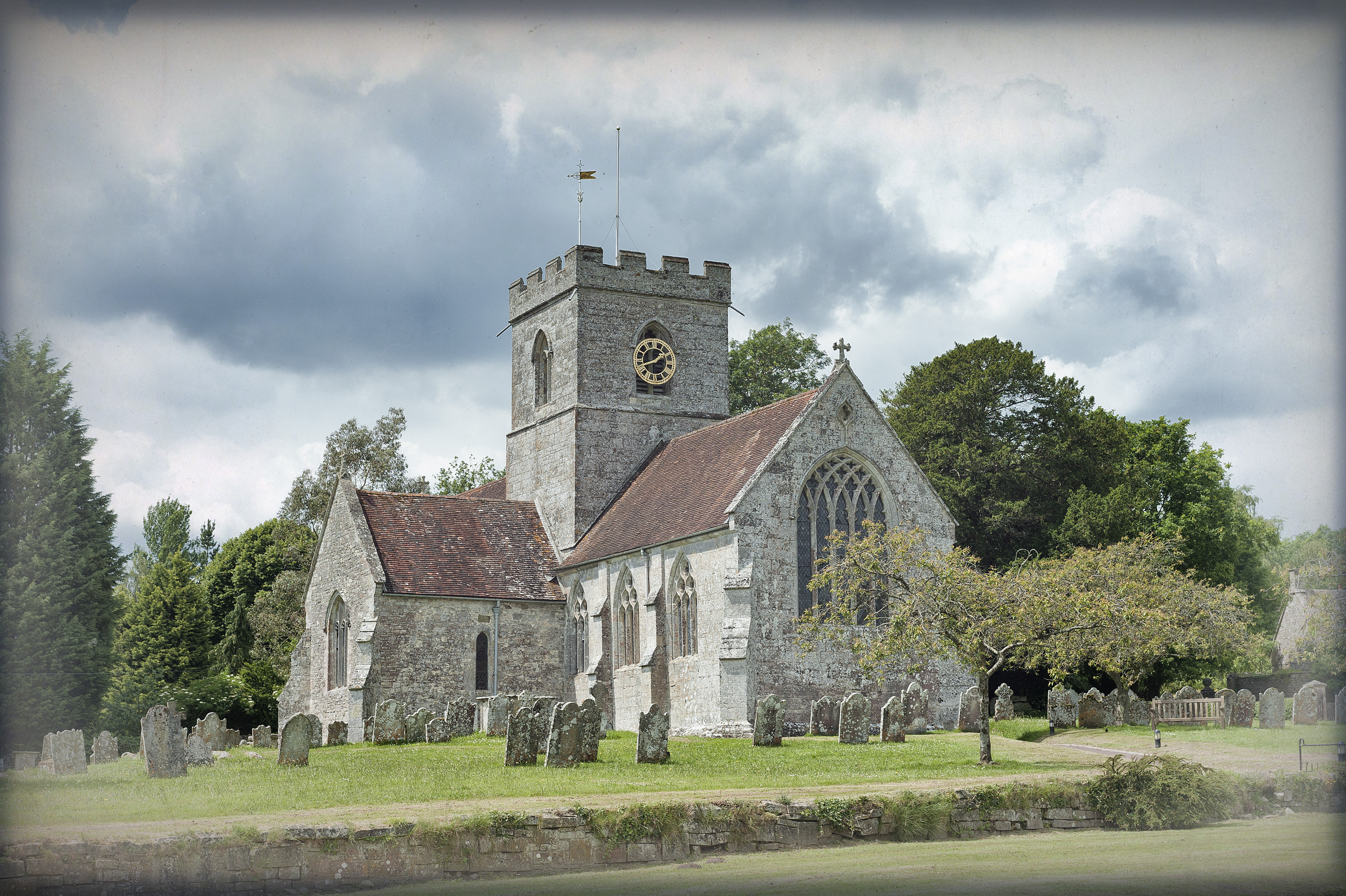 CHURCH OF ST MARY THE VIRGIN Wikidata has entry Q17529473 with data related to this building.